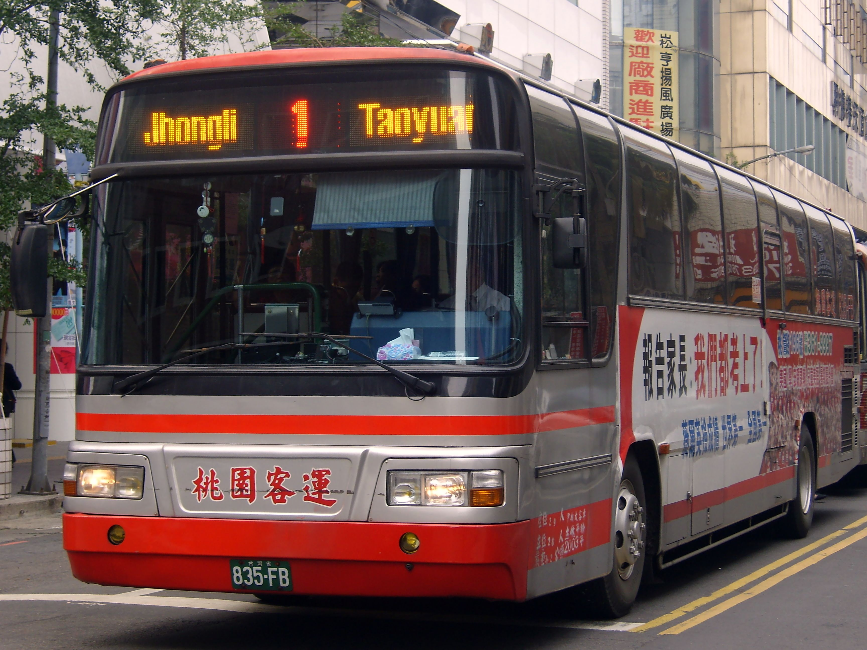 HINO ERK2JRL bus by Taoyuan City Bus.